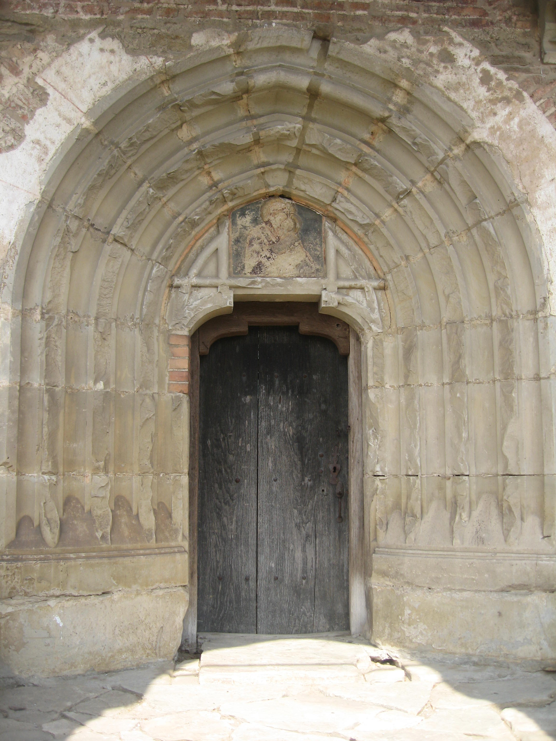 Biserica Sfântul Nicolae din Bălineşti